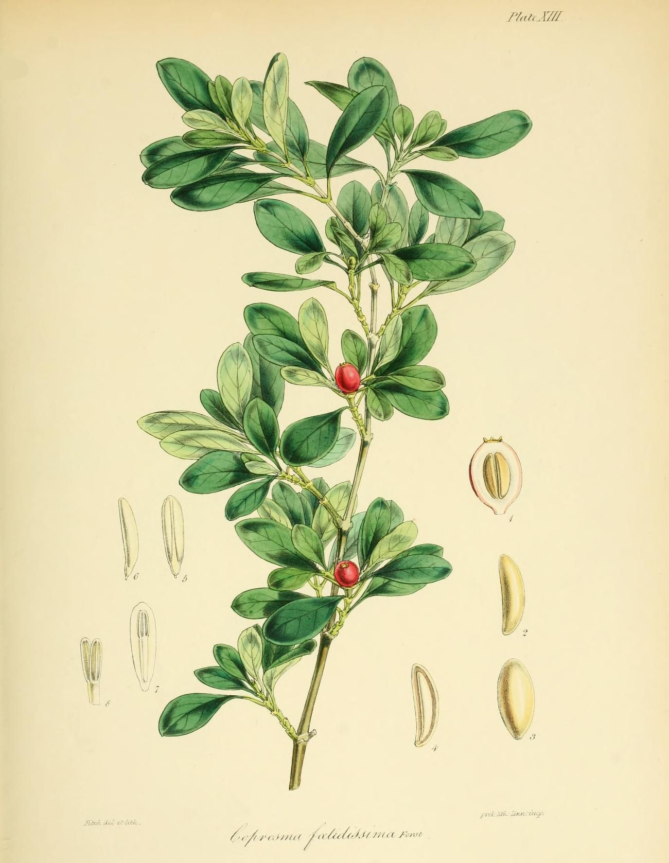 jpg of Plate XIII of Hooker's Flora Antarctica. Coprosma fœtidissima Forst.